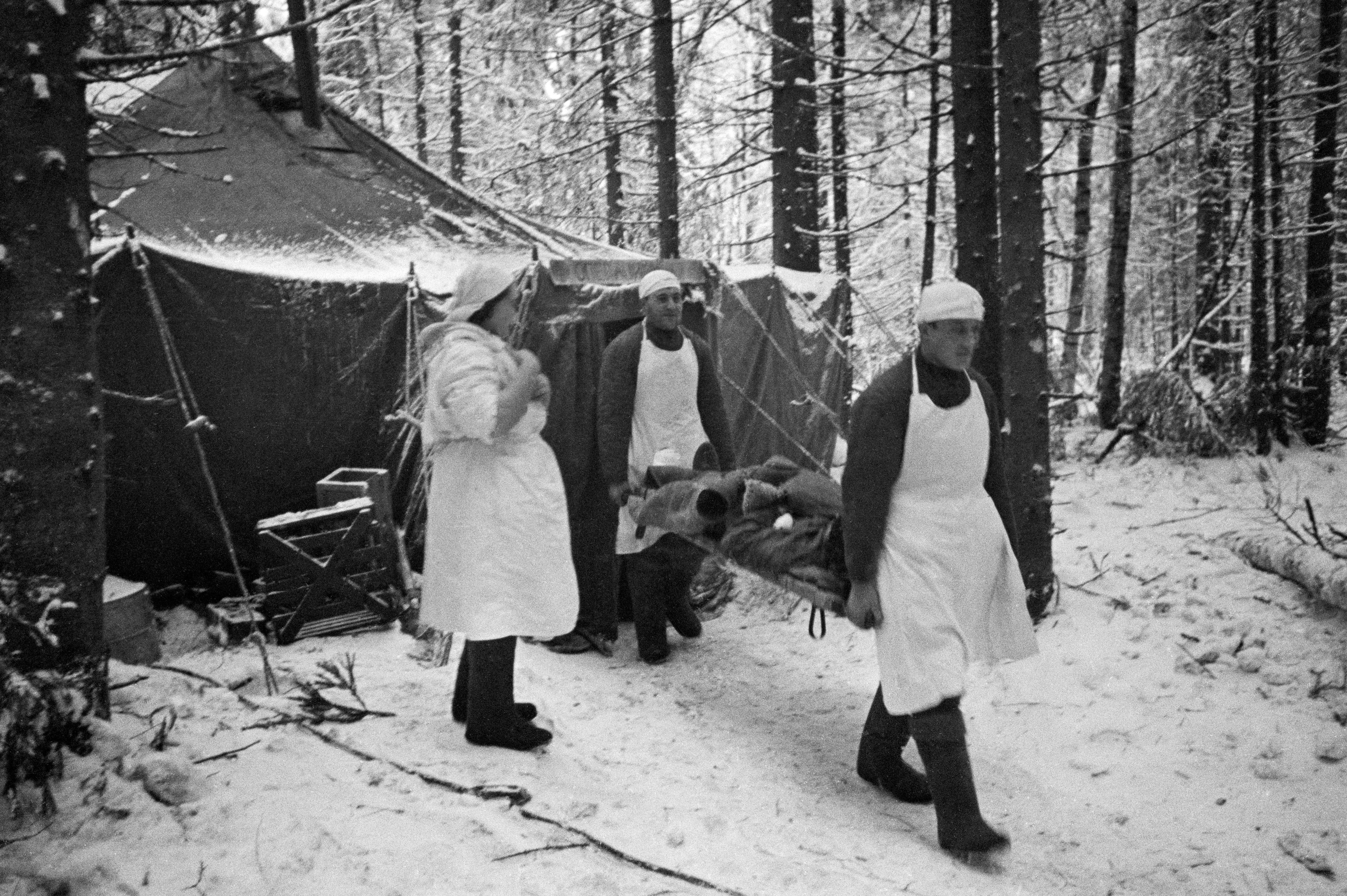 “Army hospital. Volkhov Front, 1943”. An army hospital. The Volkhov Front, 1943.